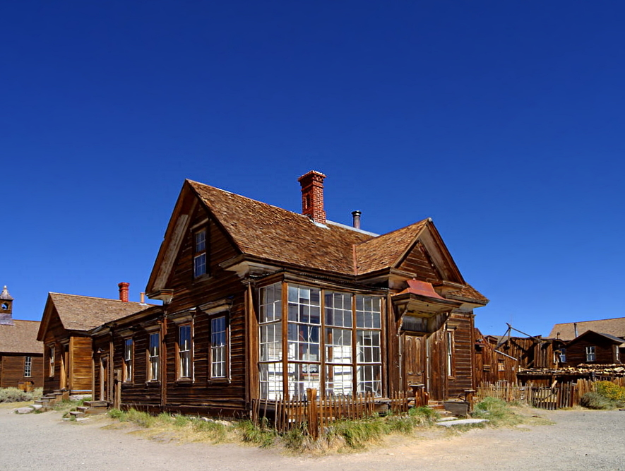 The ghost town of Bodie, California. Lens: Sigma 12-24mm. Keywords: Bodie California, ghost town, Wild West